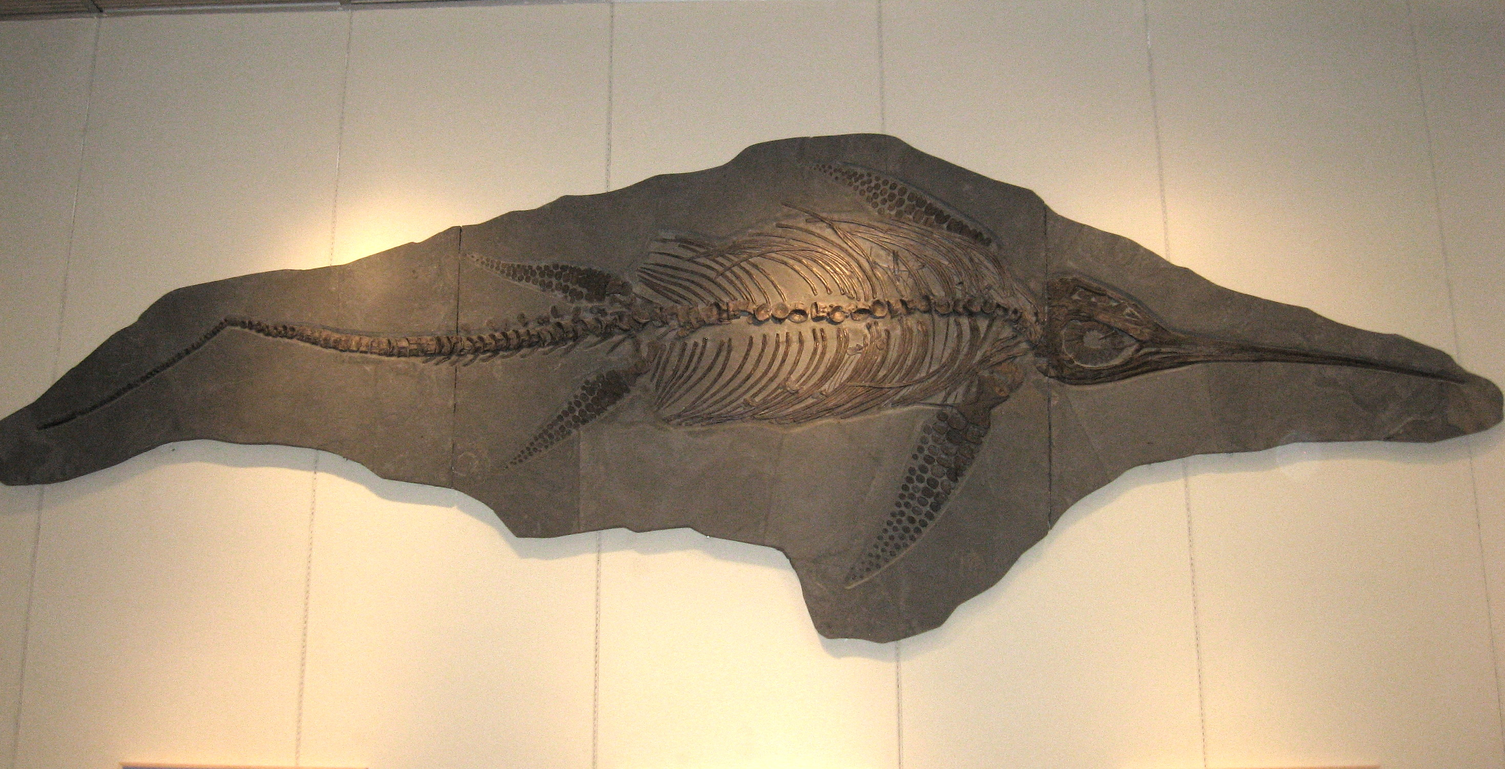 A 6.4 meter (21ft) Eurhinosaurus species specimen from the Holzmaden Formation, Baden-Wurttenburg, Germany. ~185 million years old.